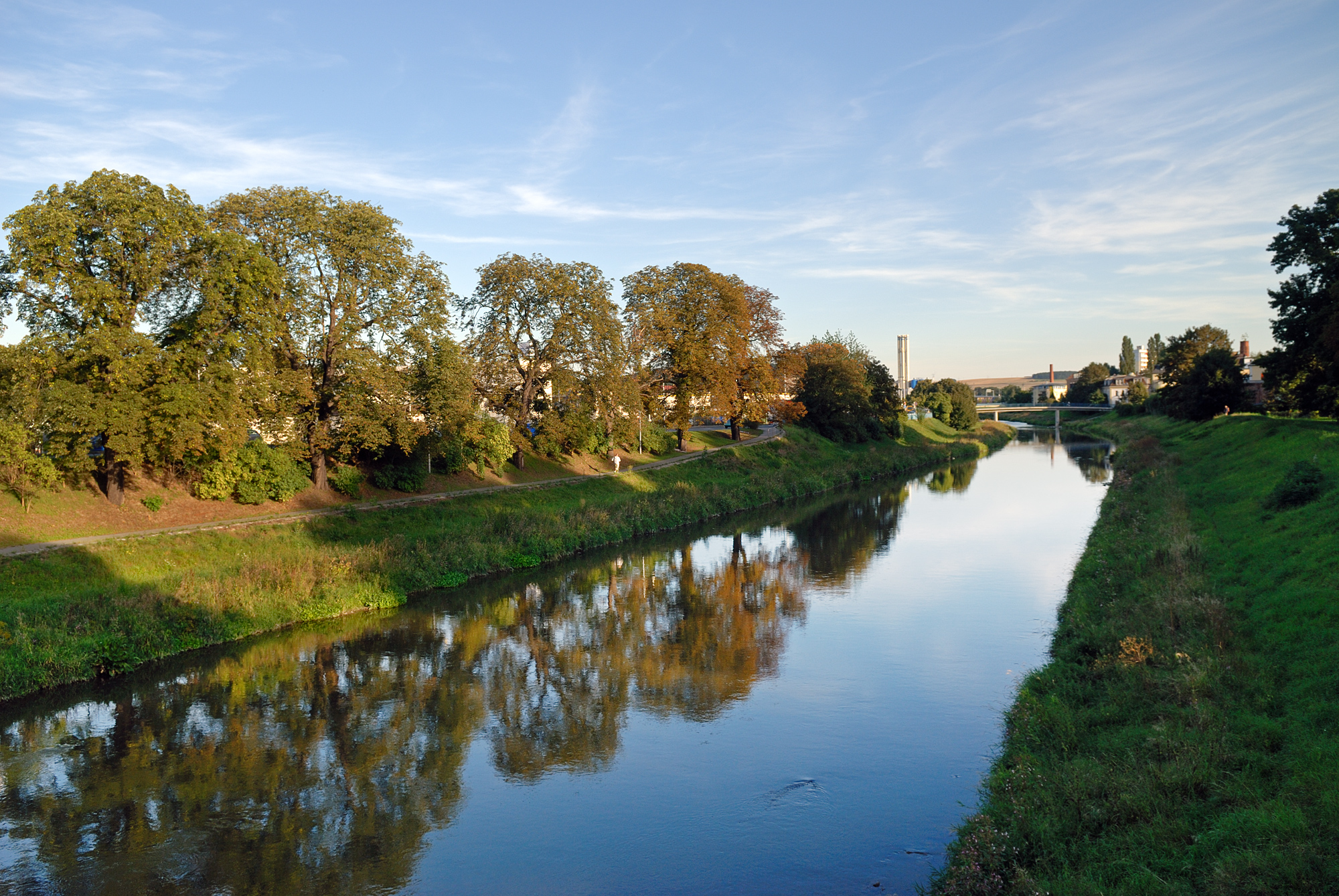 This image shows the view from the Heinrichsbrücke ("Heinrich bridge") in Gera, Germany.